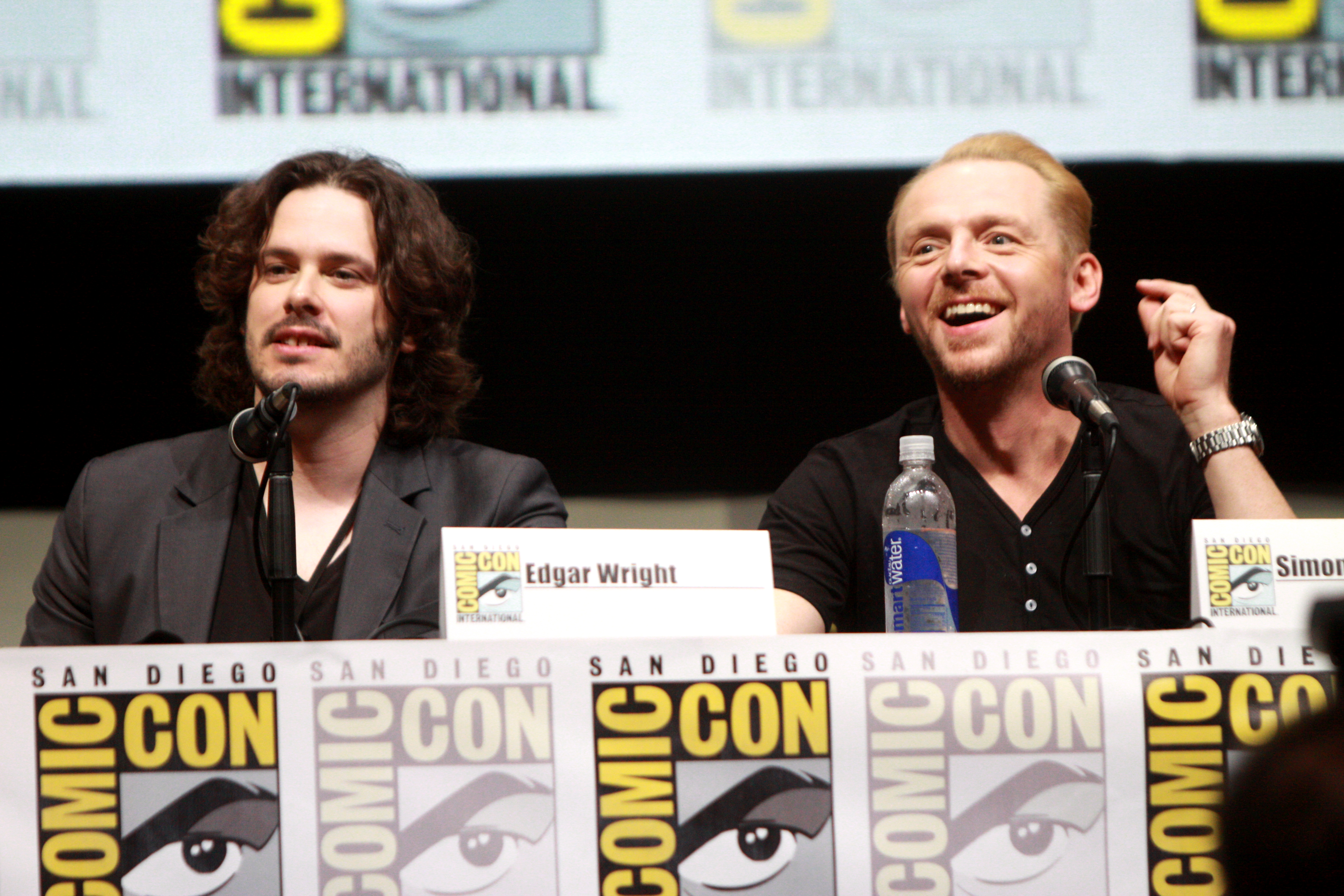 Edgar Wright and Simon Pegg speaking at the 2013 San Diego Comic Con International, for "The World's End", at the San Diego Convention Center in San Diego, California.